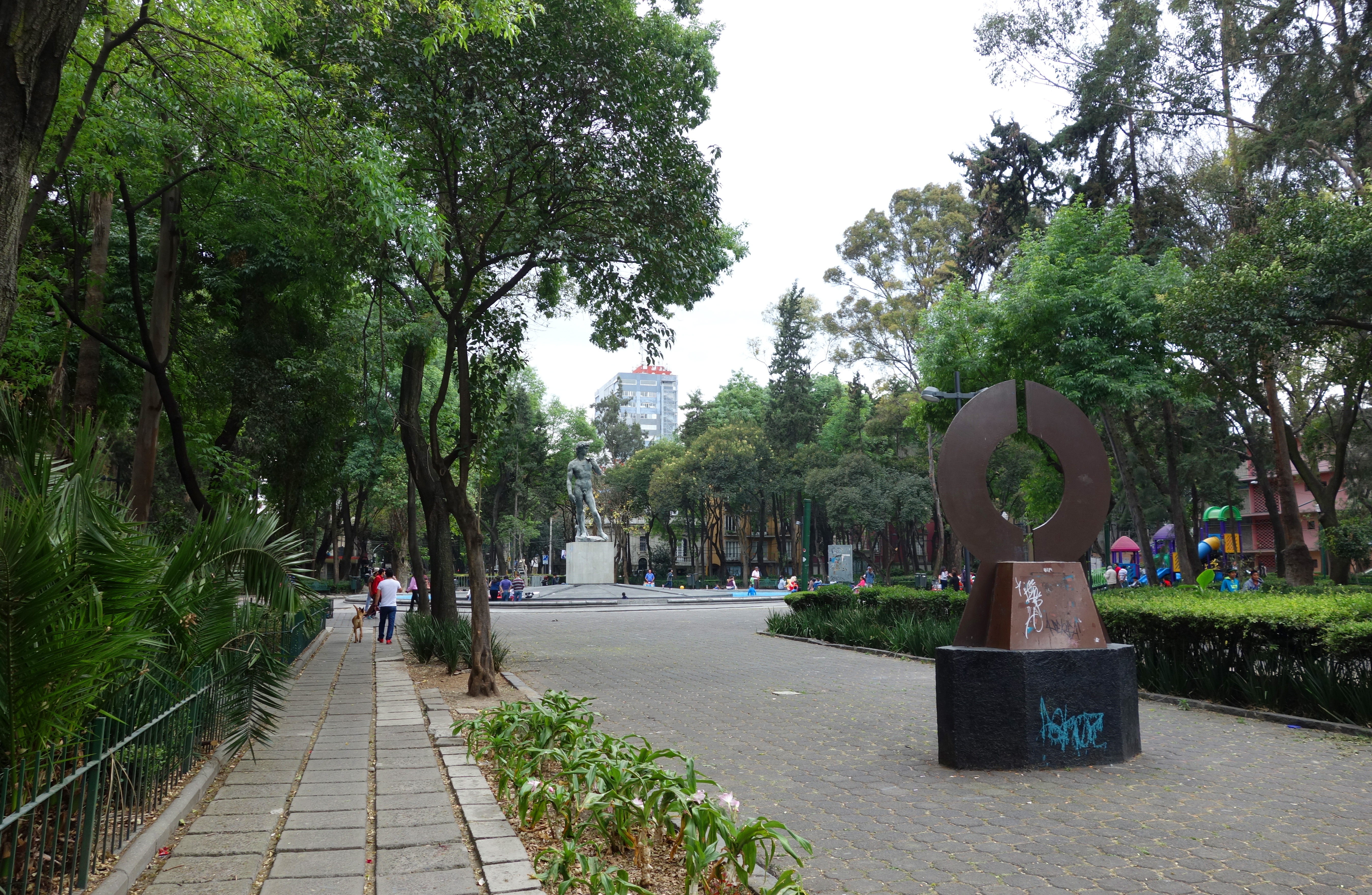 Plaza Río de Janeiro in Colonia Roma, Mexico City